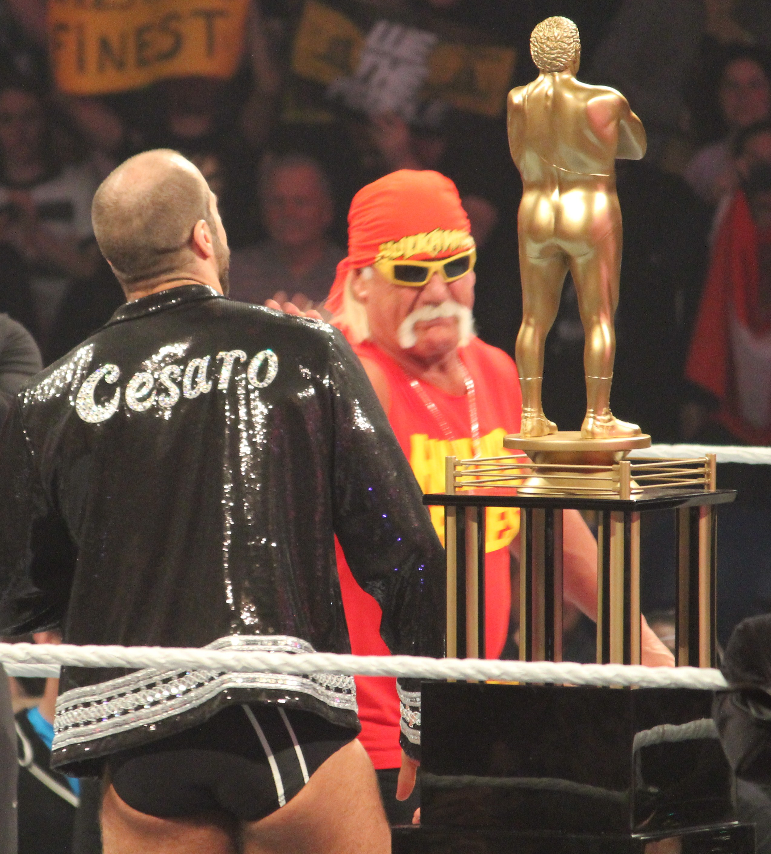 Cesaro (left) is endorsed by Hulk Hogan at the post-WrestleMania Raw on 7 April 2014 in New Orleans, Louisiana.